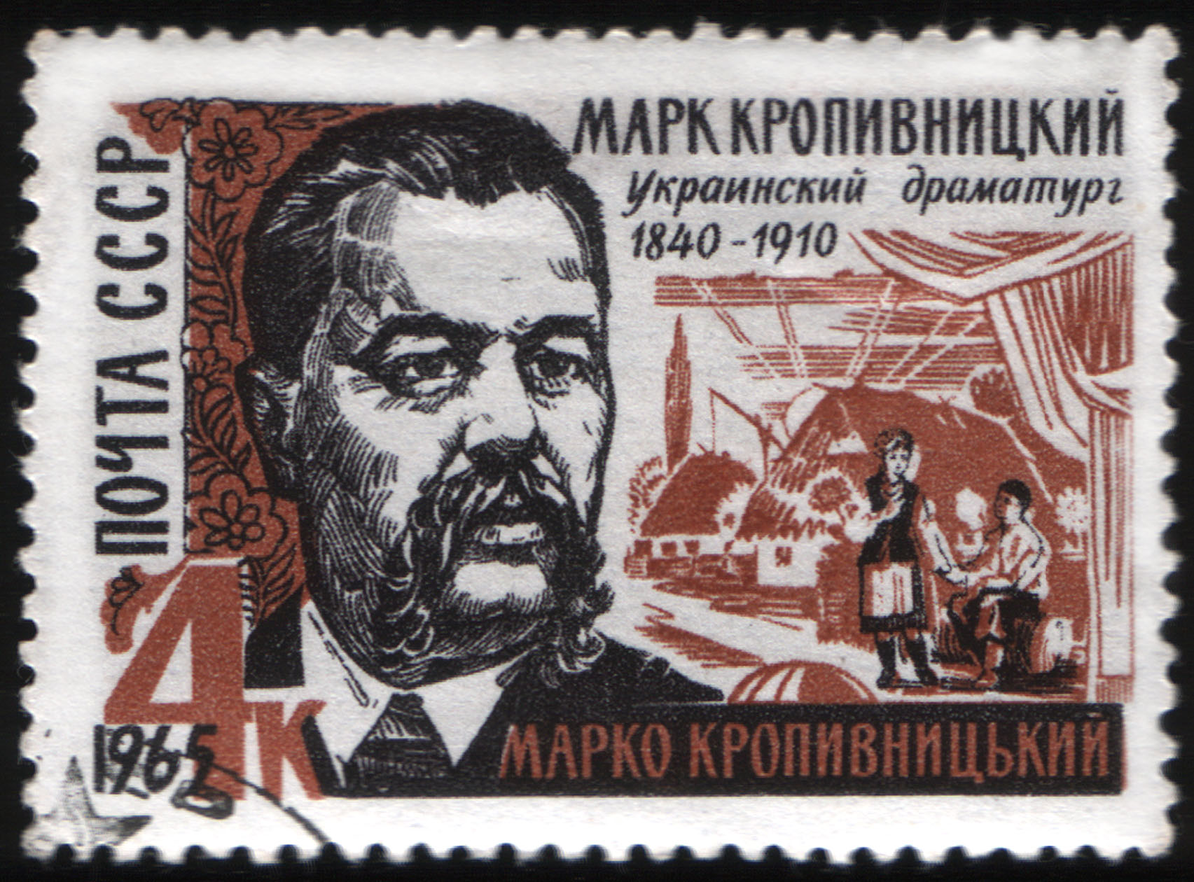 USSR stamp, M. Kropivnitsky, 1965, 4 k.